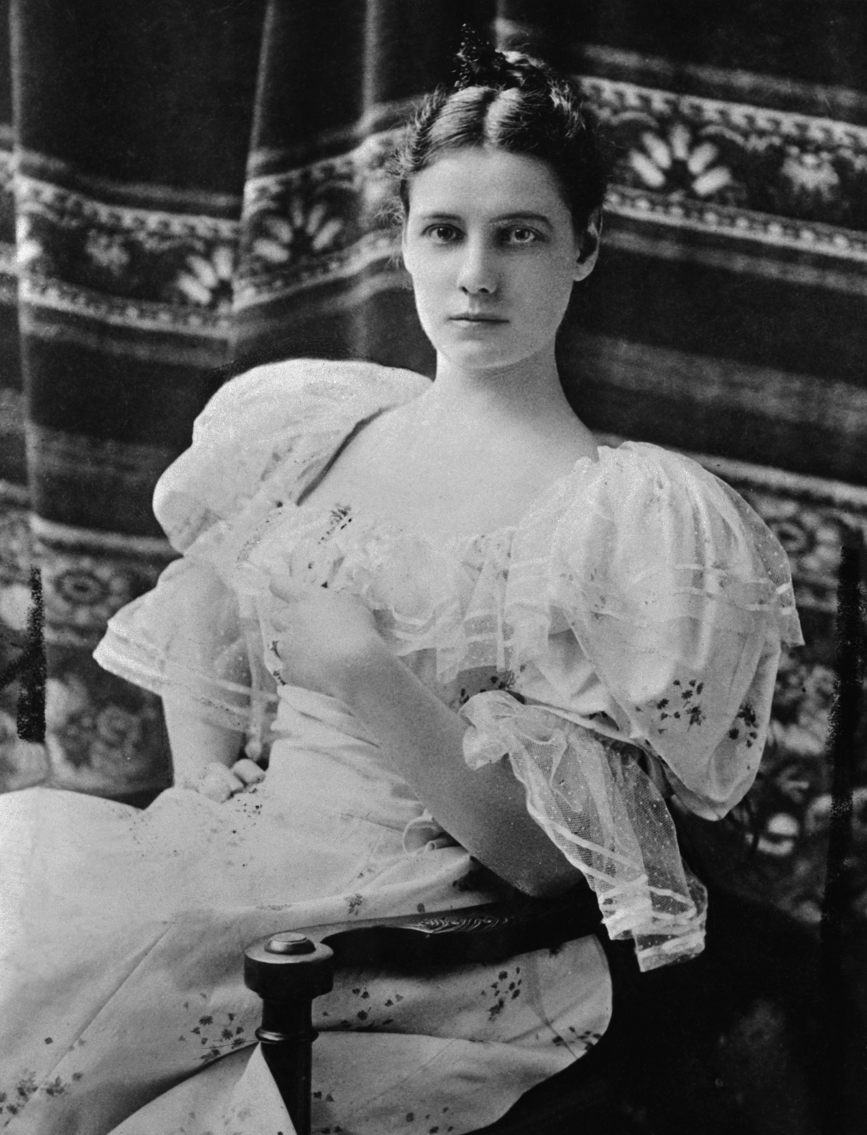 portret of a 21 y/o Nellie Bly in Mexico